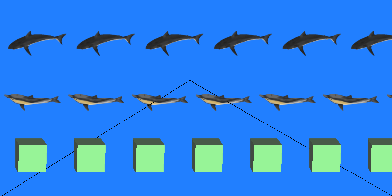 Autostereogram Tutorial Test Stereogram Description: A simple wallpaper autostereogram with two non-repeating lines to help the viewer establish proper wall-eyed viewing. Source: Fred Hsu, March 2005.